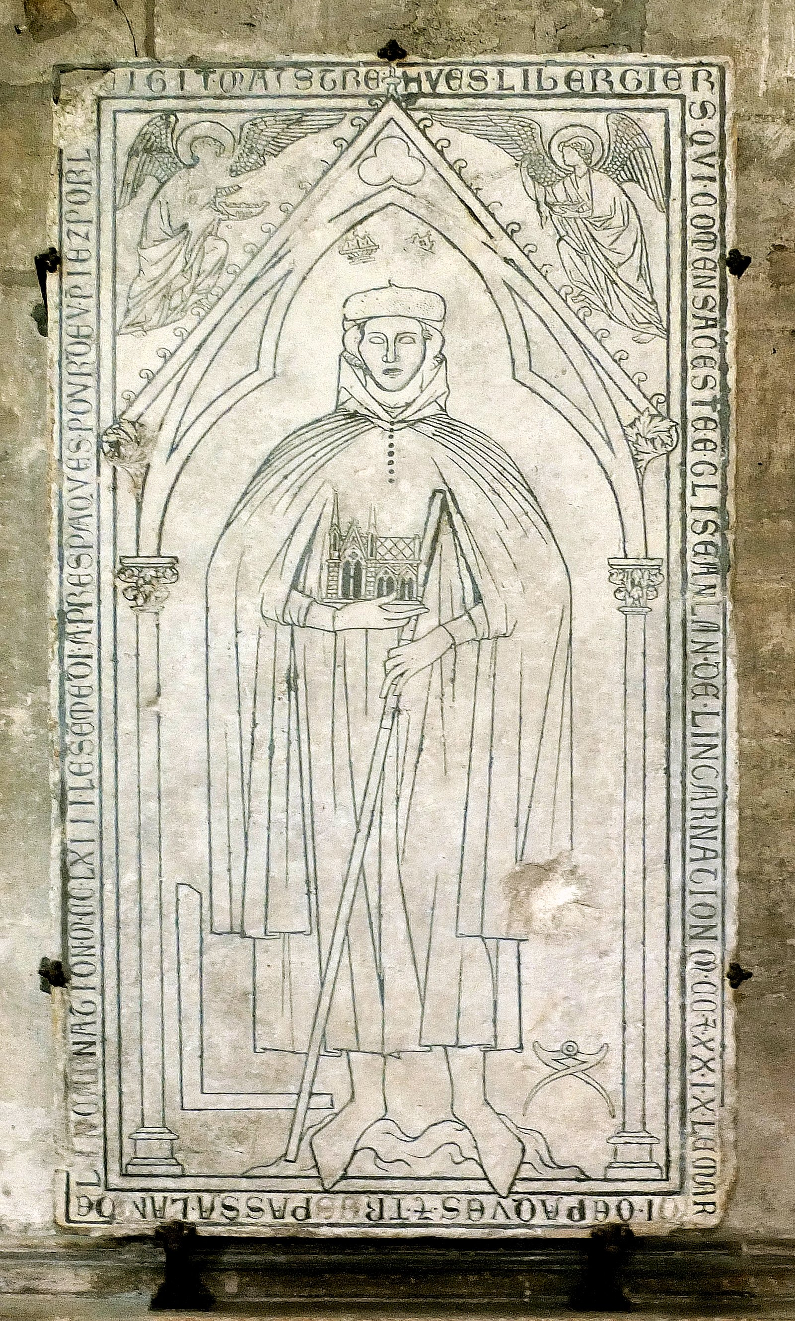 Tombstone of Hugues Libergier (* 1229; † 1263) in the Cathedral Notre-Dame in Reims, France.